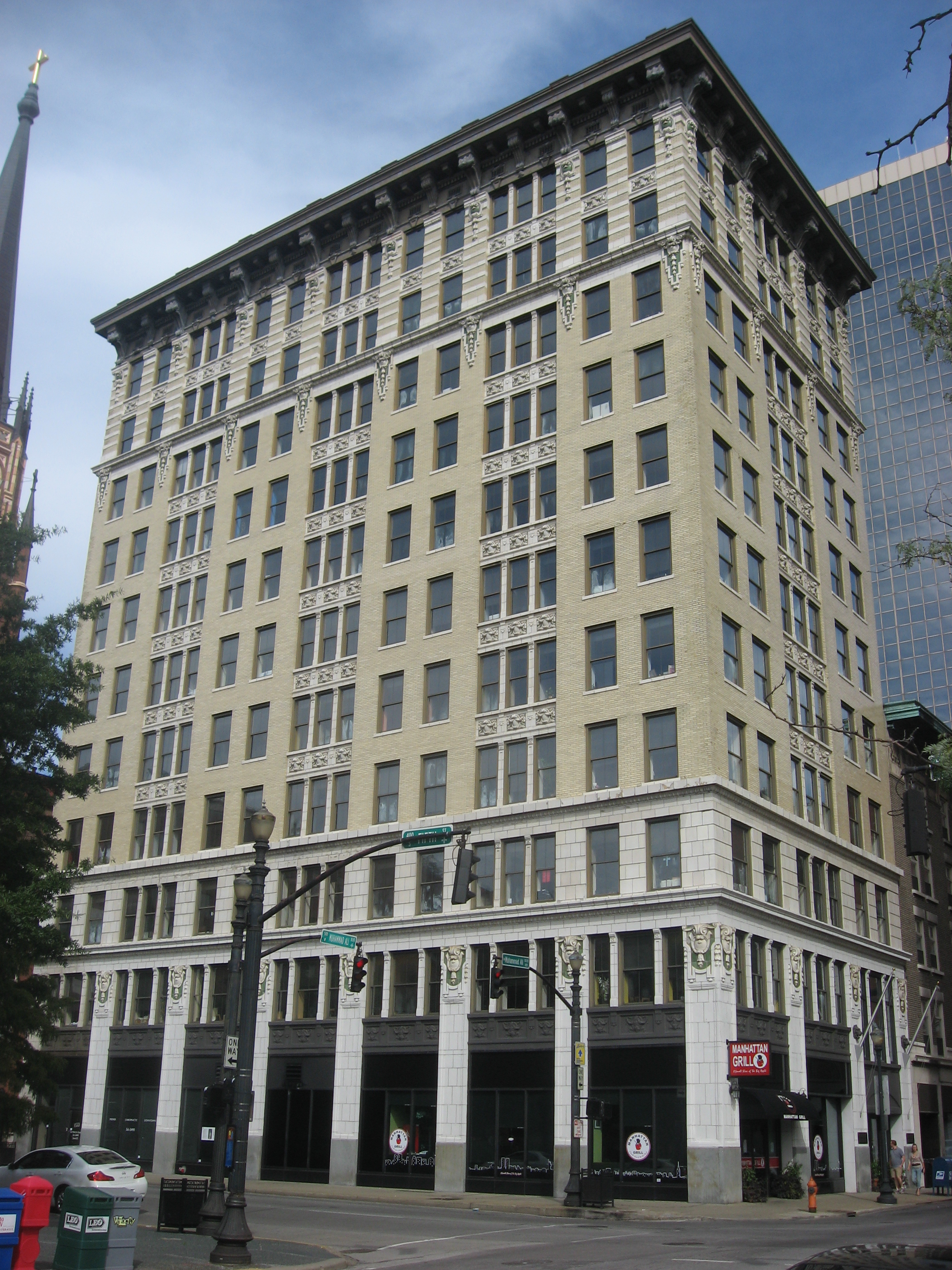 Front and western side of the Republic Building, located at 429 W. Muhammad Ali Boulevard in Louisville, Kentucky, United States. Built in 1912, it is listed on the National Register of Historic Places.